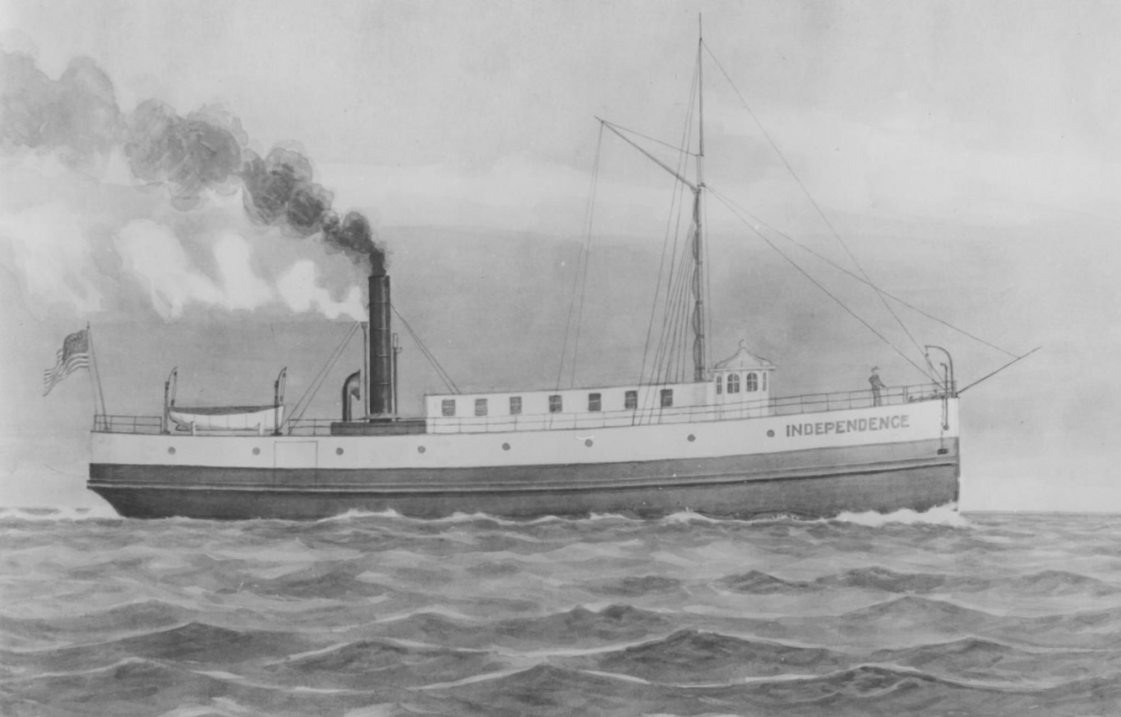 Illustration of the steamboat Independence, taken from photograph